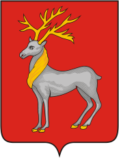 Rostov (Yaroslavl oblast), coat of arms